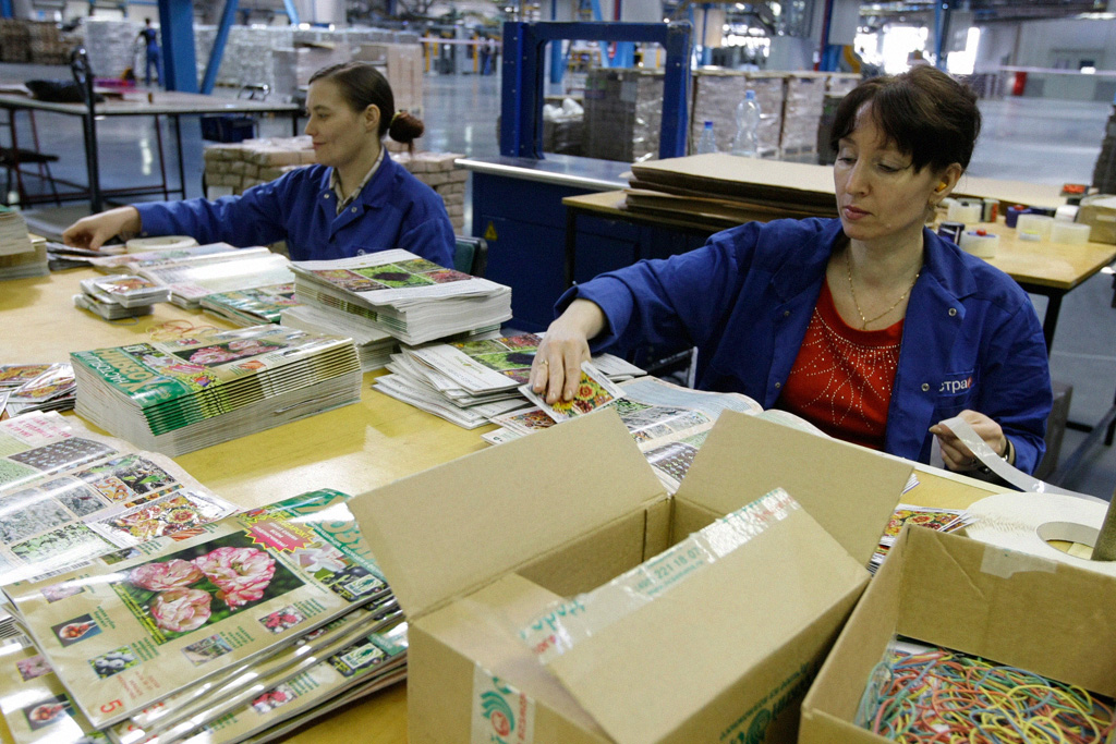 “Cutting-edge printing complex "Extra M" in Krasnogorsk near Moscow”. Packing end products of the cutting-edge printing complex "Extra M" in Krasnogorsk near Moscow, one of the largest Russian companies that produce full-color newspapers and magazines.